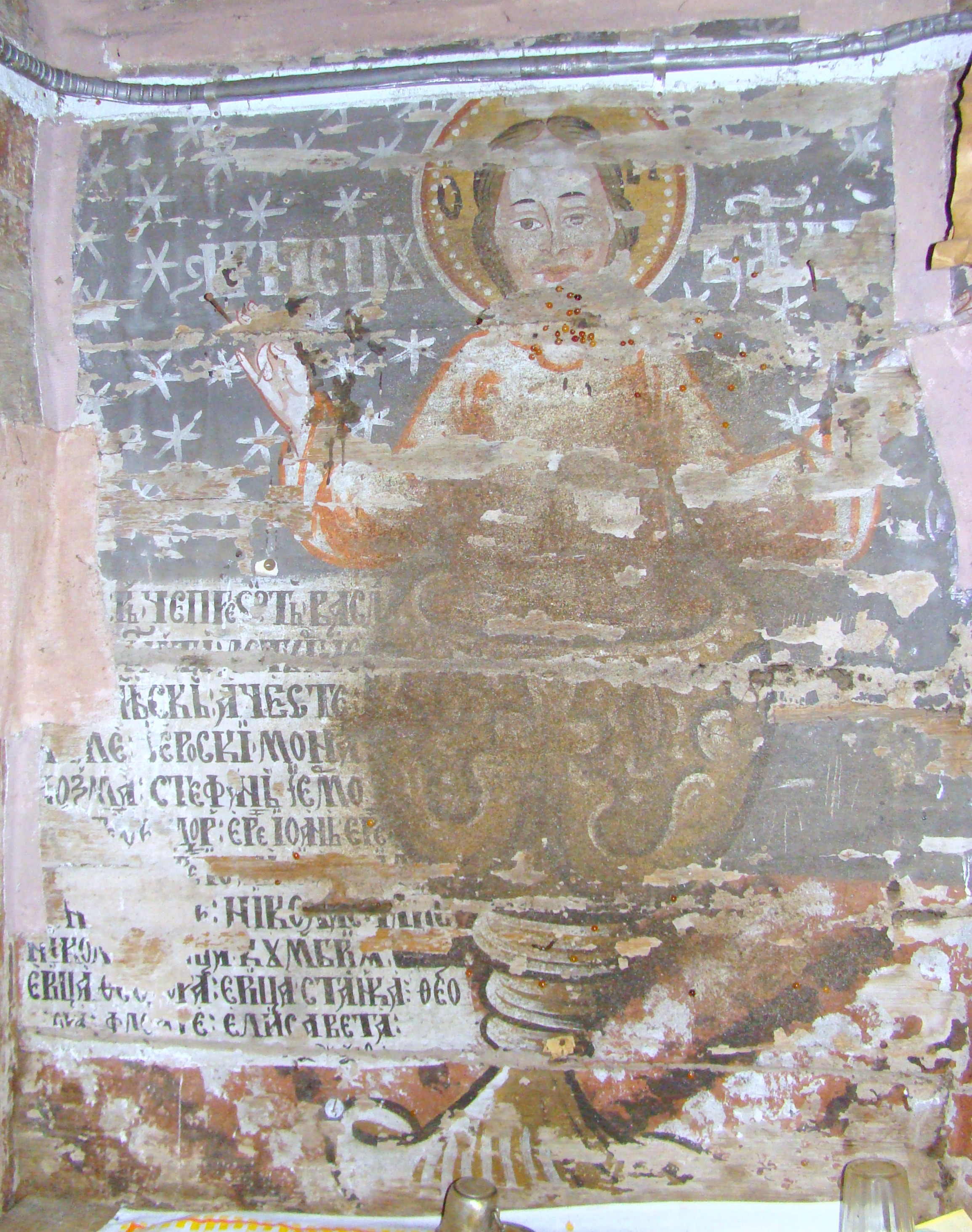 Wooden church in Micănești, Hunedoara county